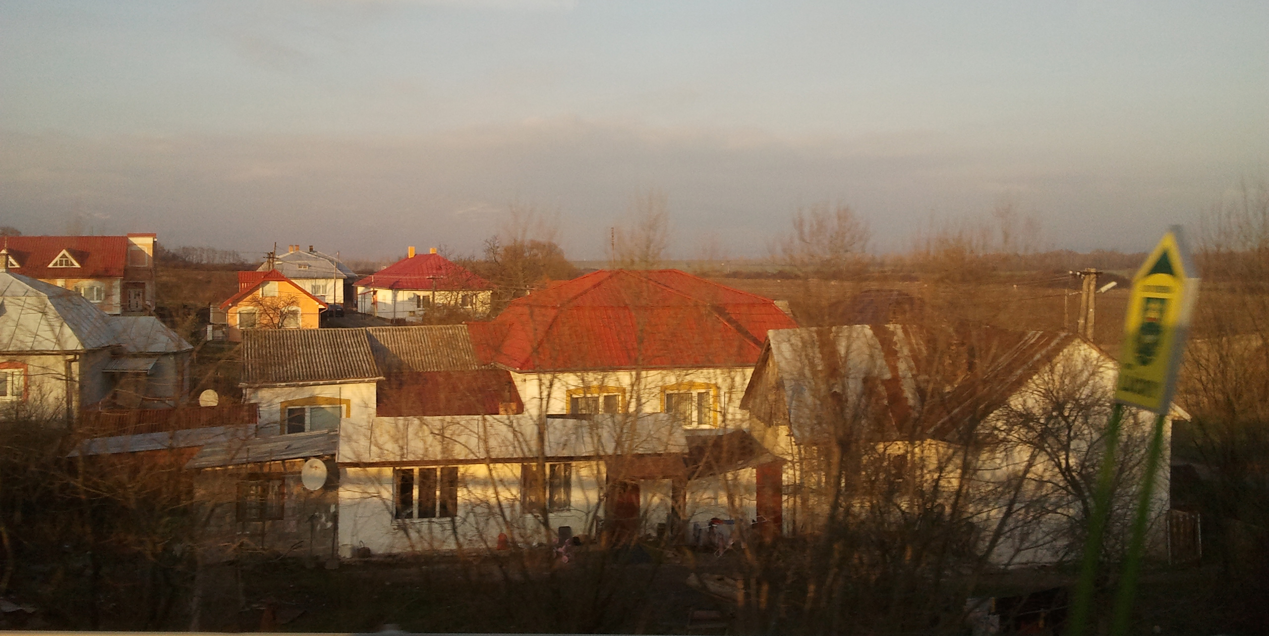 Lúčky village, Michalovce region, Slovakia. Српски (ћирилица): Село Лучки, округ Михаловце, источна Словачка.